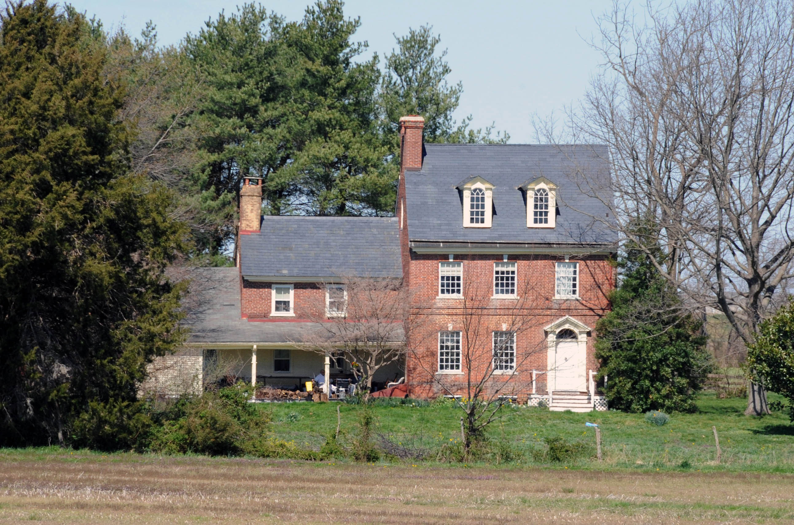 AKA JAMES CRAWFORD HOUSE; BUILT IN 1810 IN FEDERAL STYLE; JAMES CRAWFORD WAS THE GRANDSON OF A PHYSICIAN WHO CAME IN THE MID 1600s AND HELPED THE BRITISH SEIZE DELAWARE FROM THE DUTCH